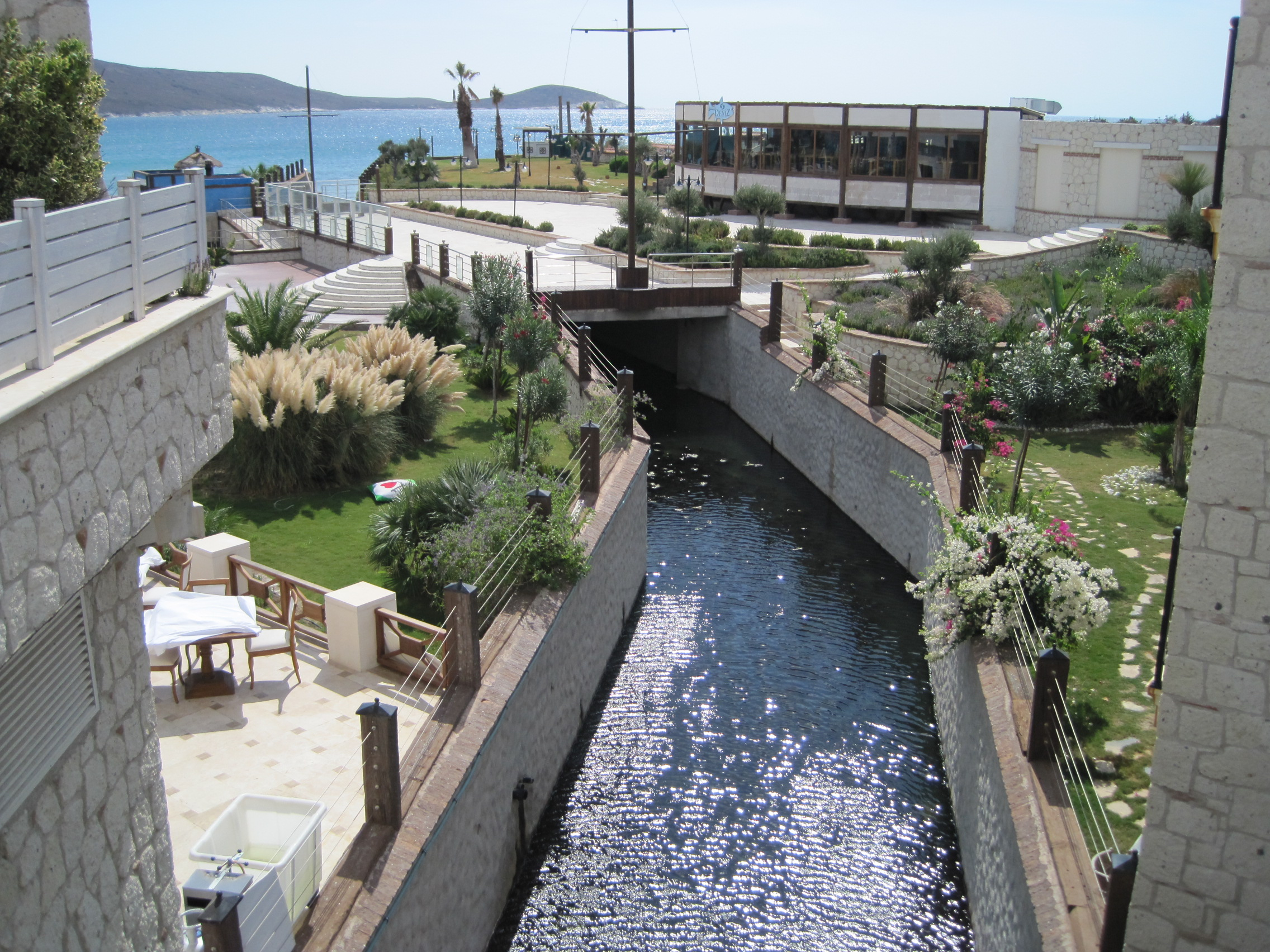 35930 Alaçatı Belediyesi/Çeşme/İzmir, Turkey